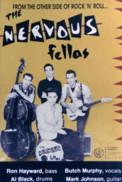 tape release